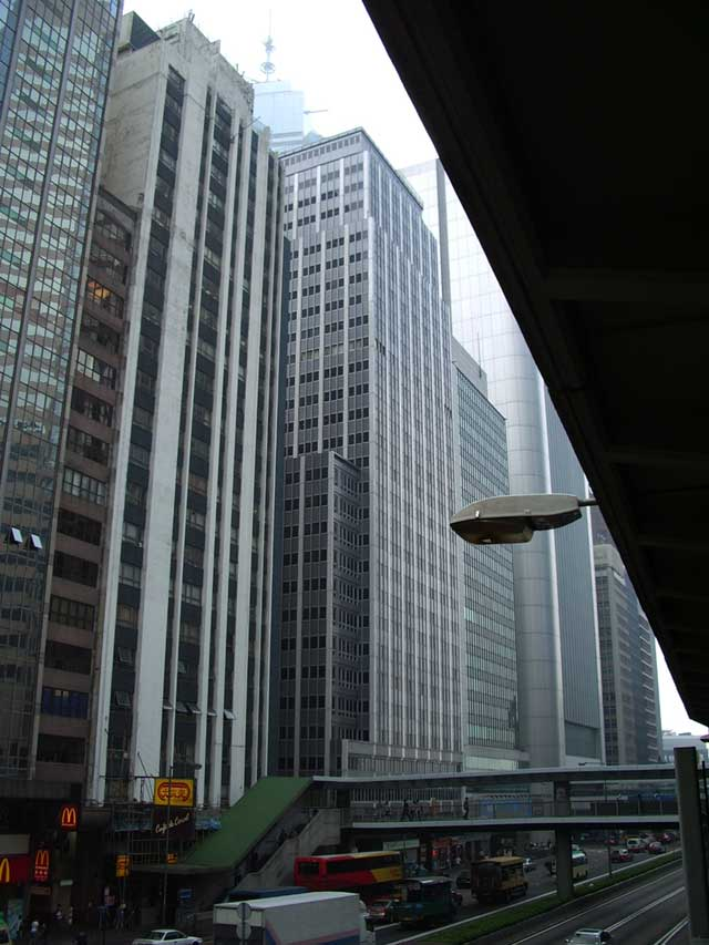 Wing On House, Des Voeux Road Central, Central, Hong Kong. Picture taken by wikipedia user JuntungWu on September 30 2004 on personal camera.